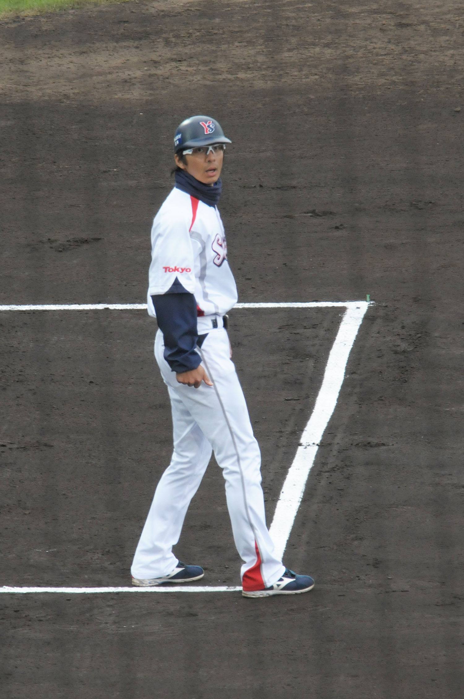 Noriyuki Shiroishi, coach of the Tokyo Yakult Swallows, at Akita Prefectural Baseball Stadium.